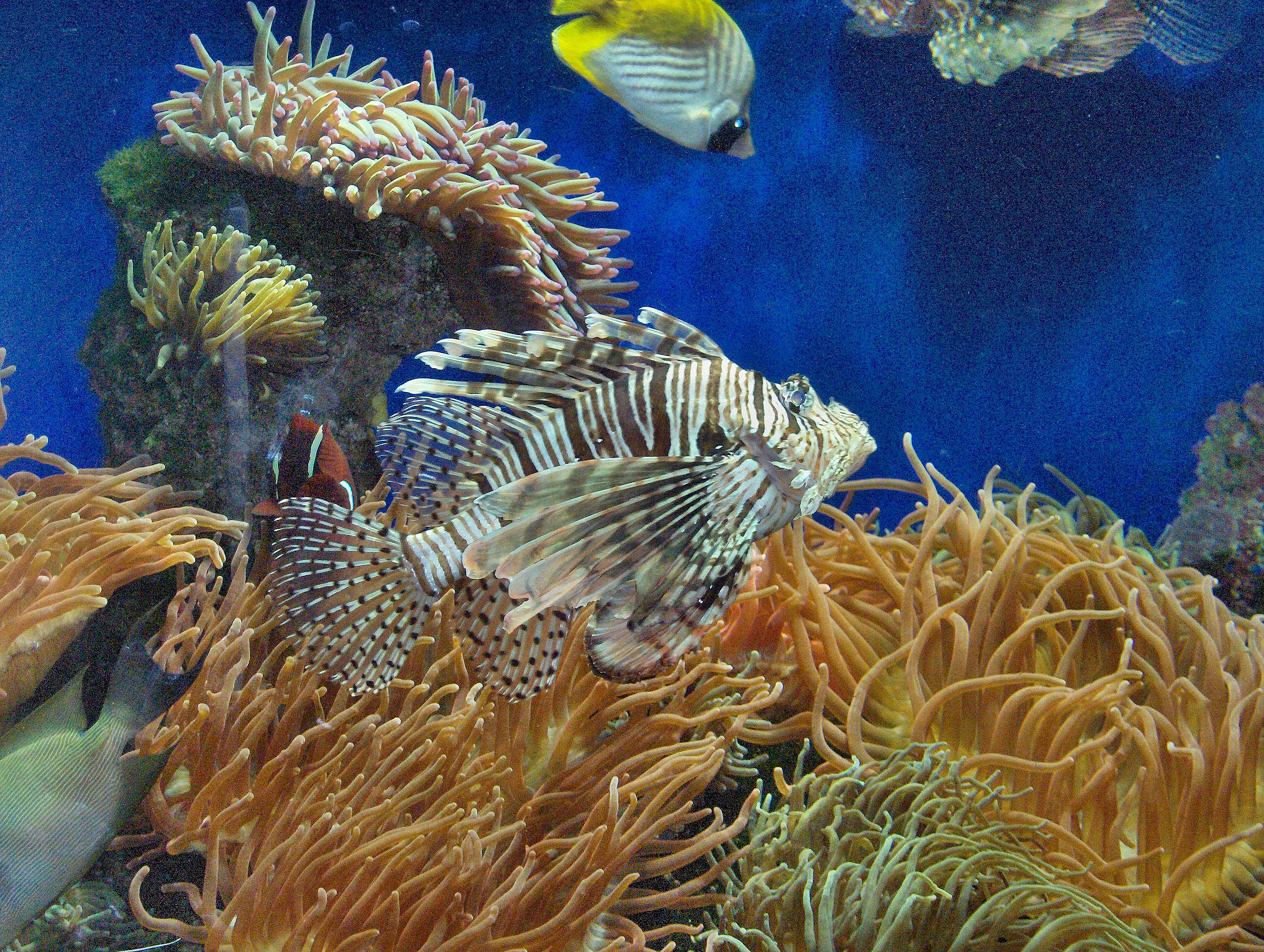 Zebra lionfish (Dedrochirus zebra); Musée Océanographique de Monaco